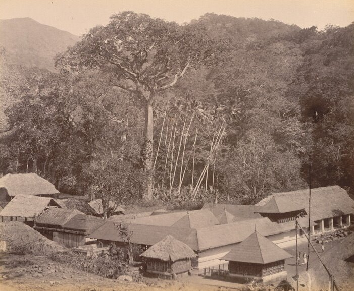 Photograph taken about 1900 by the Government photographer, Zacharias D'Cruz of the Shastha temple, Aryankavu in the erstwhile Travancore State. The photograph shows a general view looking down onto the temple buildings at Aryankavu, situated a few miles west of Shencottah in Tamilnadu. It is a small village on the ghat section of what was the Travancore railway, overlooking the mountain pass zigzagging from Madura and Tirunelveli to Travancore through the hills and the forests. The temple dedicated to the deity 'Shasta', the guardian of the hills, was very close